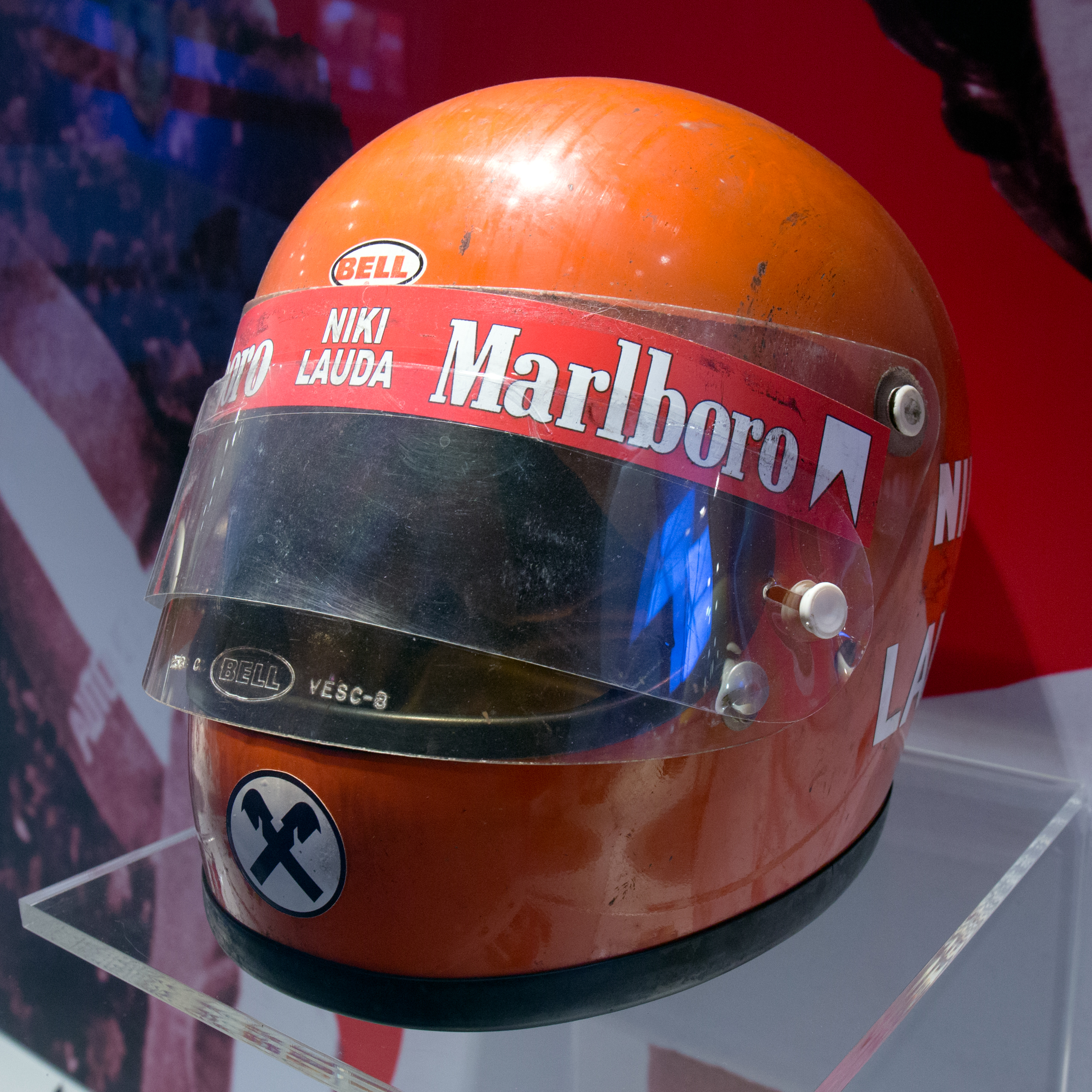 Museo Ferrari: Helmet of Niki Lauda, in the 1970s.